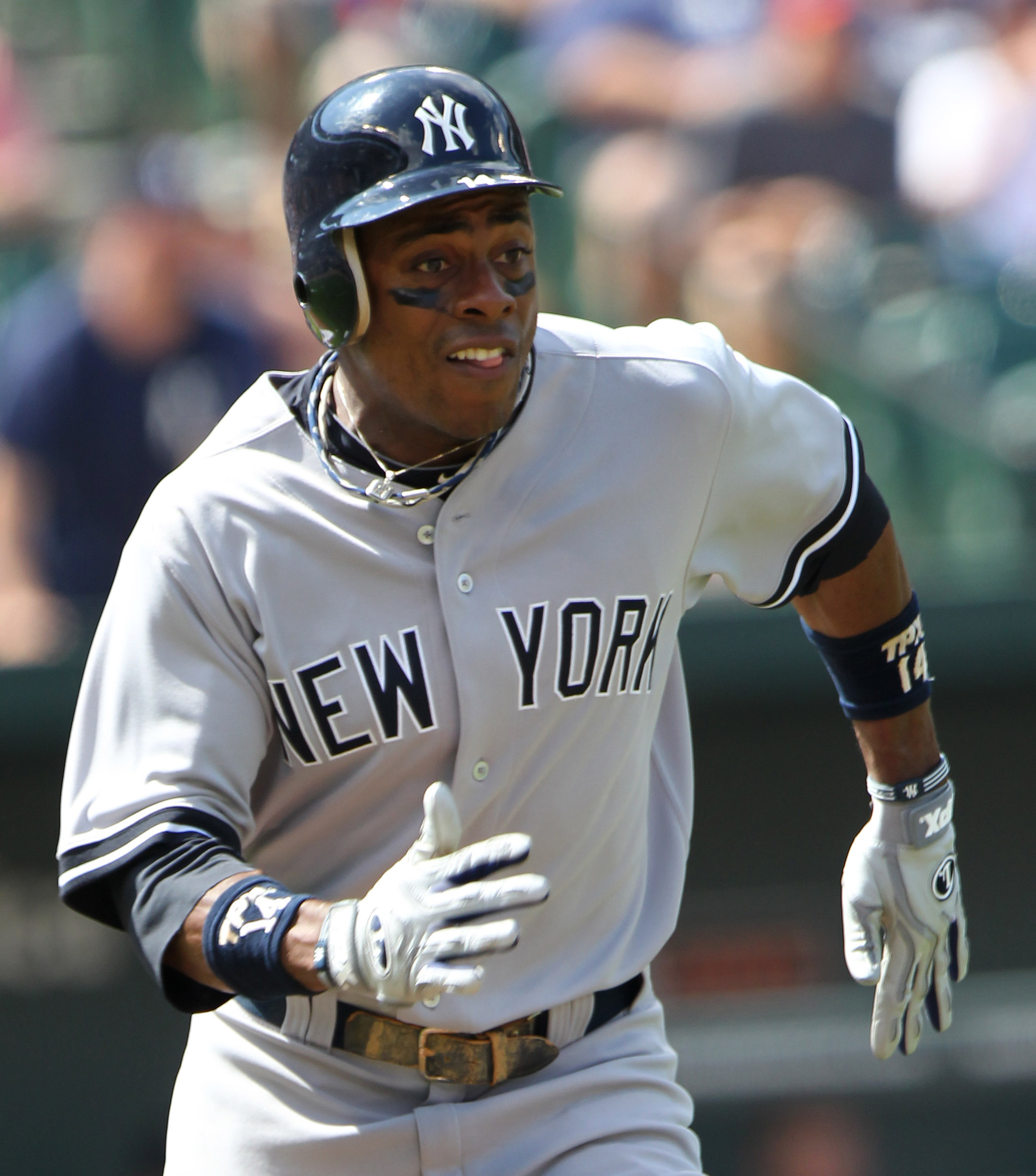 Curtis Granderson running during a game between the New York Yankees and Baltimore Orioles on August 28, 2011